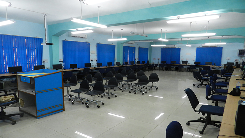 GCETTB ALBUM